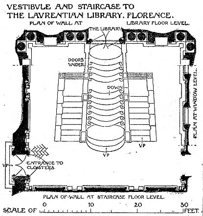 Plan of the vestibule of the Laurentian Library